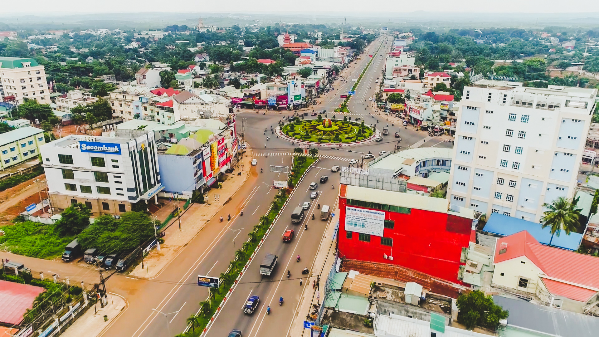 Đồng Xoài City